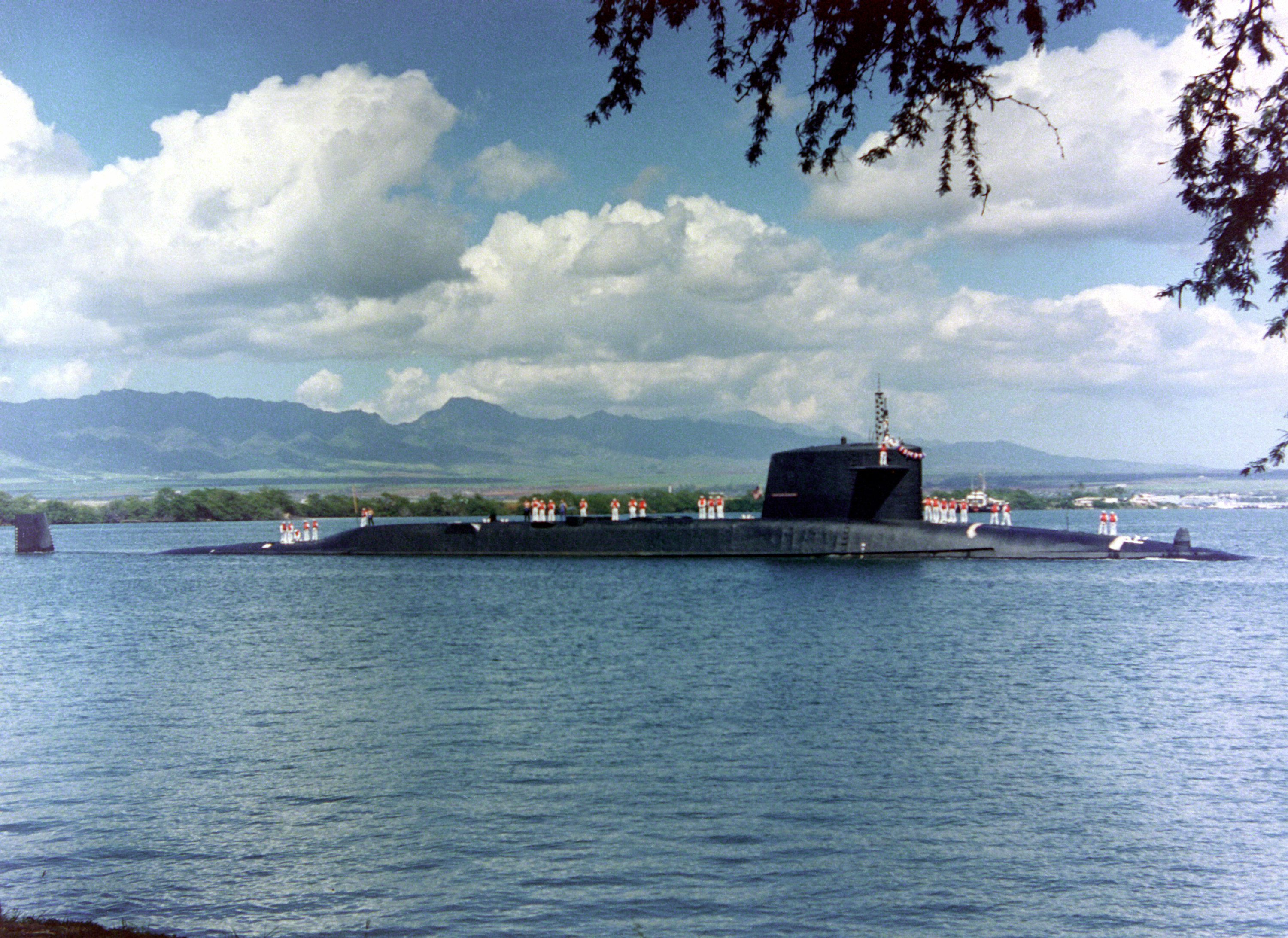 A starboard beam view of the nuclear-powered attack submarine USS SAM HOUSTON (SSN-609) entering the harbor.Location: PEARL HARBOR, HAWAII (HI) UNITED STATES OF AMERICA (USA)